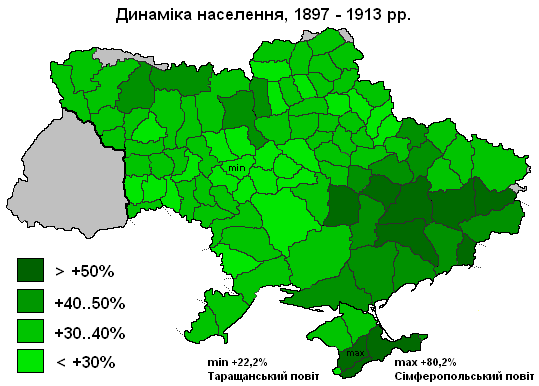 Population change, 1897 - 1913